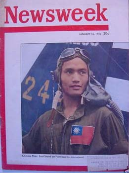 Cover of the January 16, 1950 issue of Newsweek magazine. The issue features a Chinese flier on the cover. The issue cost 20 cents.